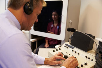 Audiological exam using an audiometer